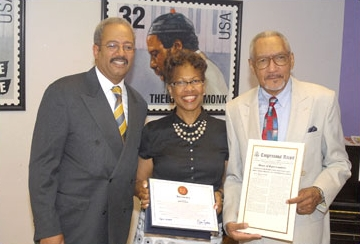 Congressman Chaka Fattah honors Bob Perkins, legendary jazz radio host and advocate, for four decades as a Philadelphia institution known as "B.P. with the G.M." Bob Perkins' with the Good Music. Bob Perkins has completed 10 years of five-day-a-week broadcasts on WRTI-FM, the Temple University station. Bob Perkins; wife Sheila joins in the ceremony at the Philadelphia Clef Club of Jazz and Performing Arts in June 2007 - with a giant version of the stamp honoring jazz great Thelonius Monk providing the backdrop.